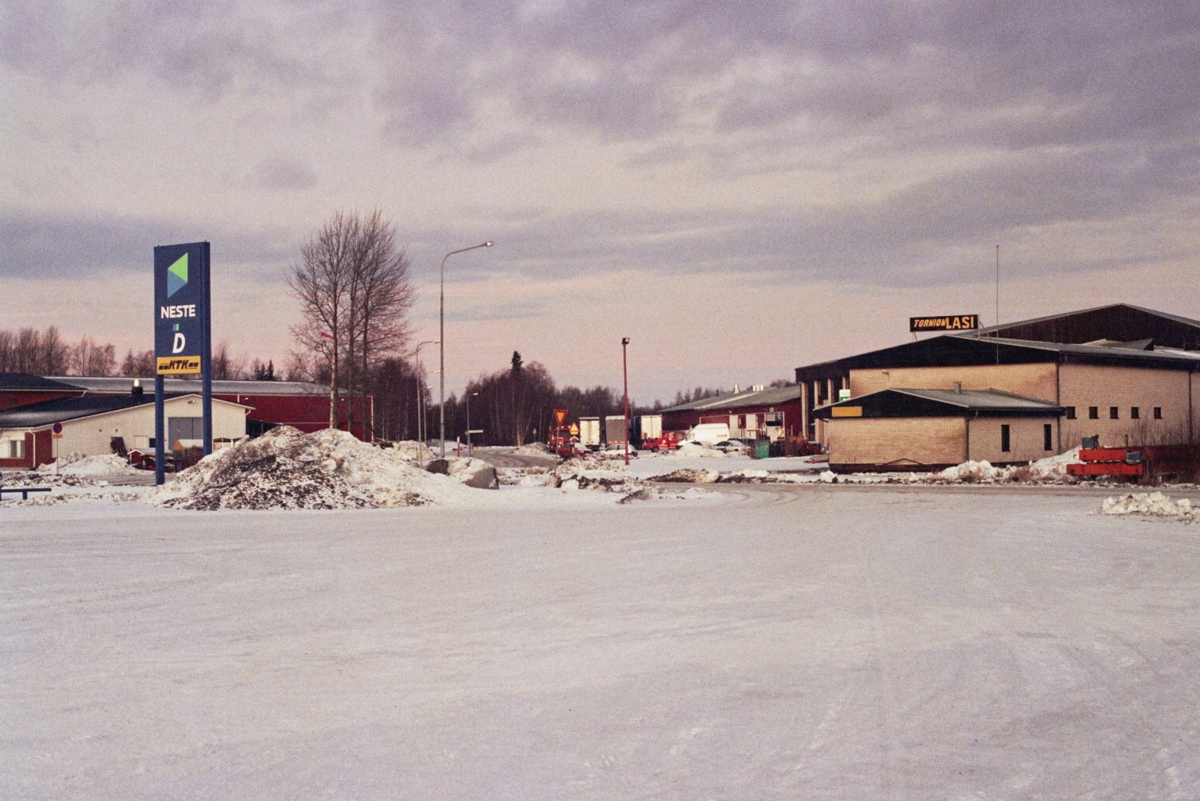 A view from the Torppi district of the city of Tornio in Finland. The area is mostly known for small-scale industry and various relatively small companies.